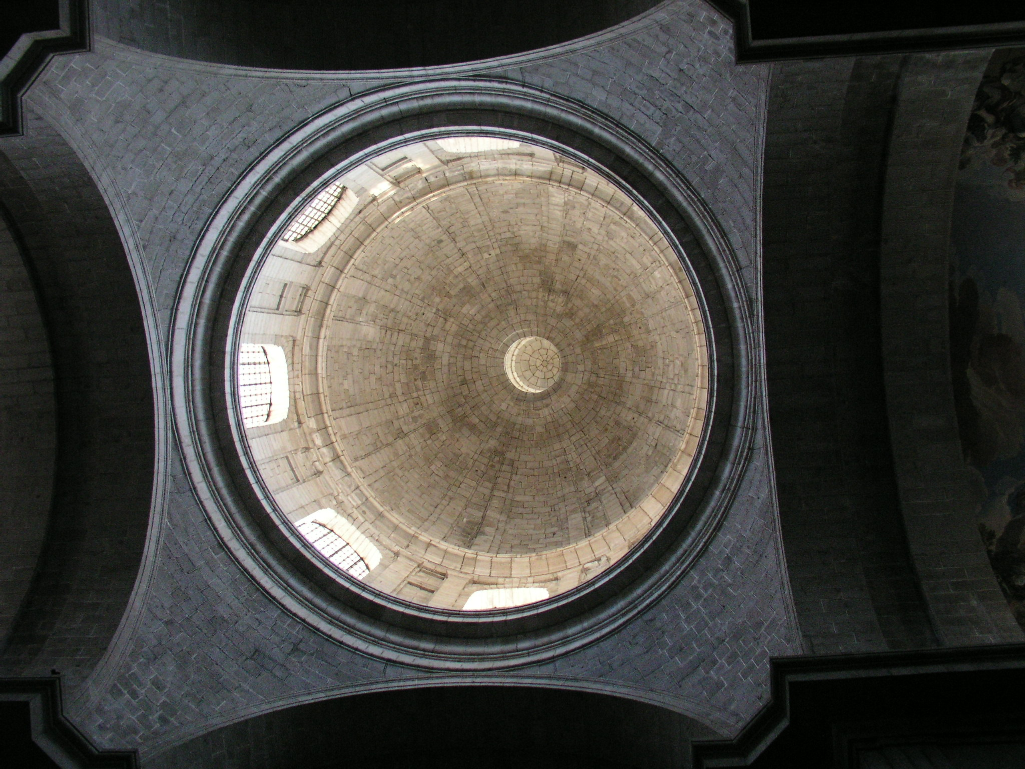 El Escorial, church, cupola.